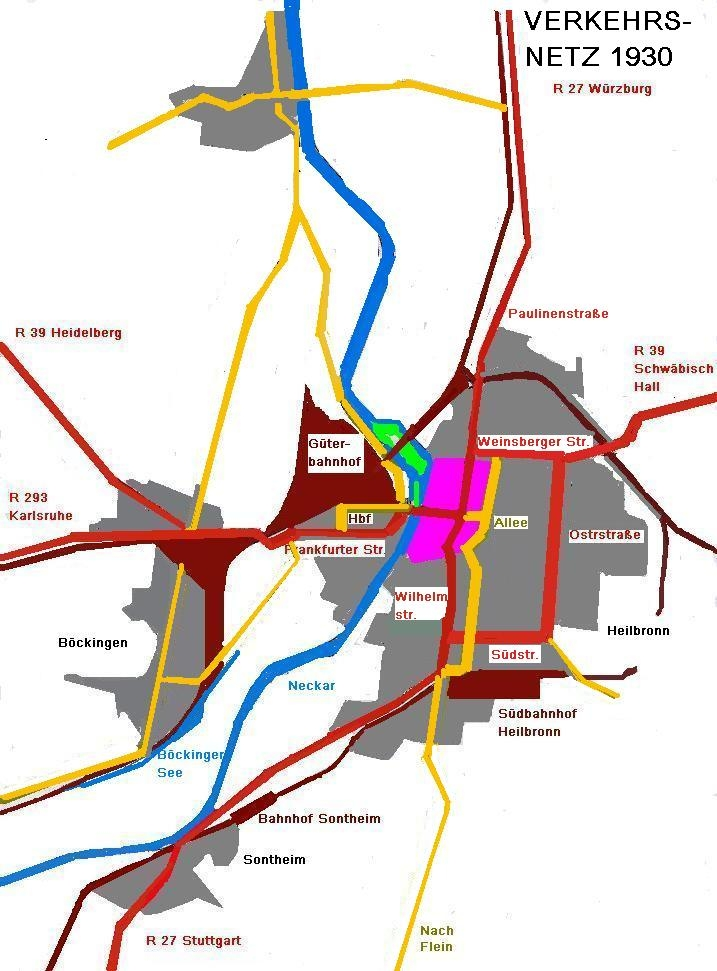 Heilbronn_Verkehrsnetz_1930.PNG